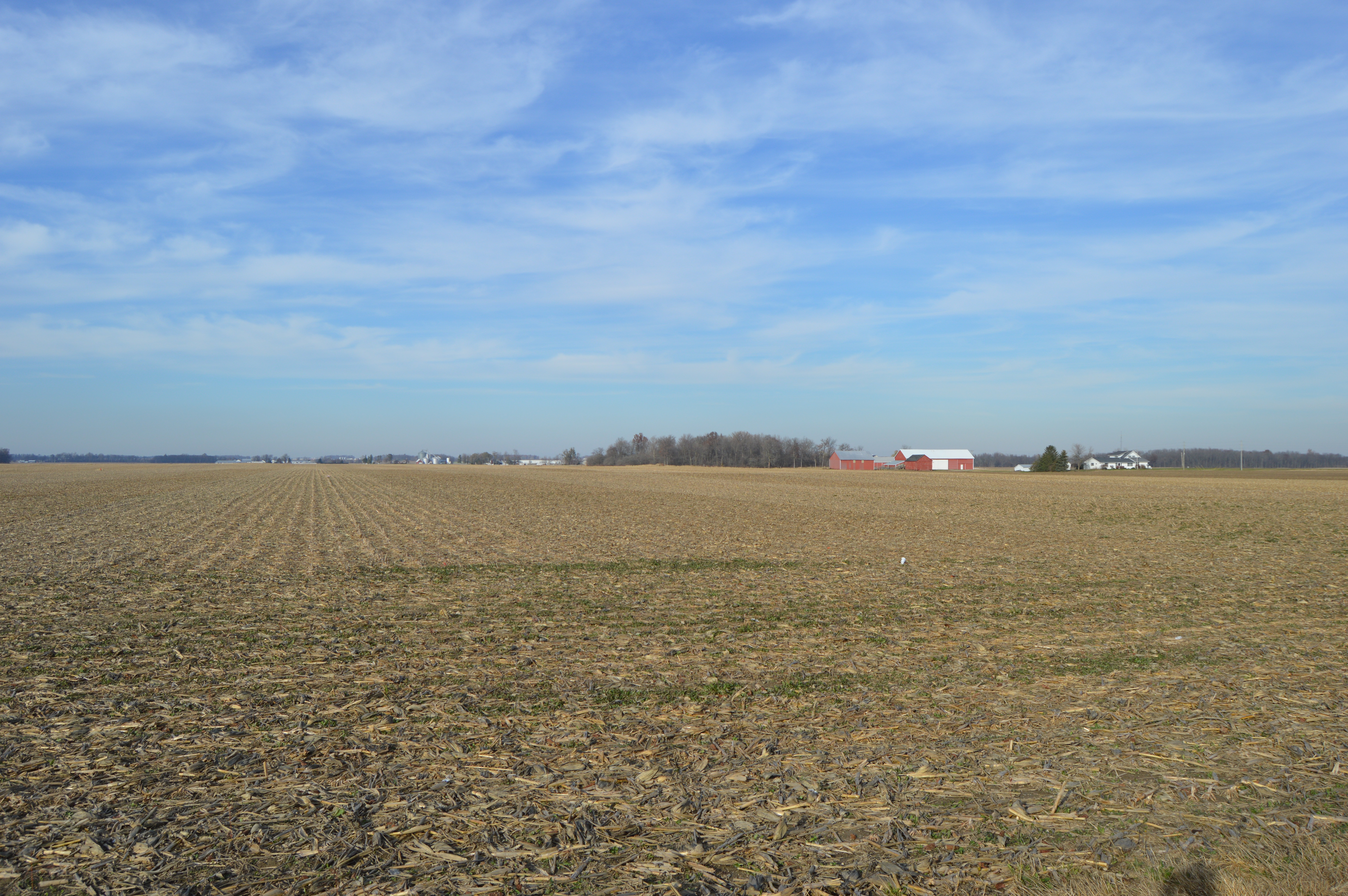 Fields on the northern side of State Route 47 just west of the State Route 49 intersection in Brown Township, Darke County, Ohio, United States.